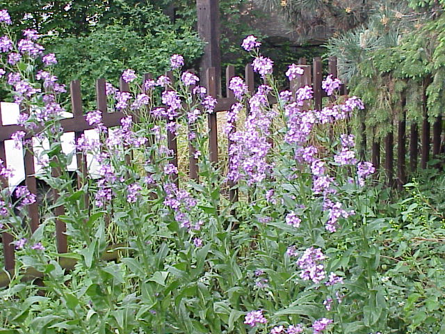 Species: Hesparis matronalis Family: ' Image No. 1